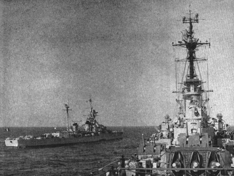 The U.S. Navy heavy cruiser USS Des Moines (CA-134) and the French light cruiser Montcalm operate together during "Operation Longstep", a NATO ten-day exercise in the Mediterranean Sea, in 1952. 170 ships and 500 aircraft of the France, Greece, Italy, Turkey, the United Kingdom and the United States took part in the exercise.